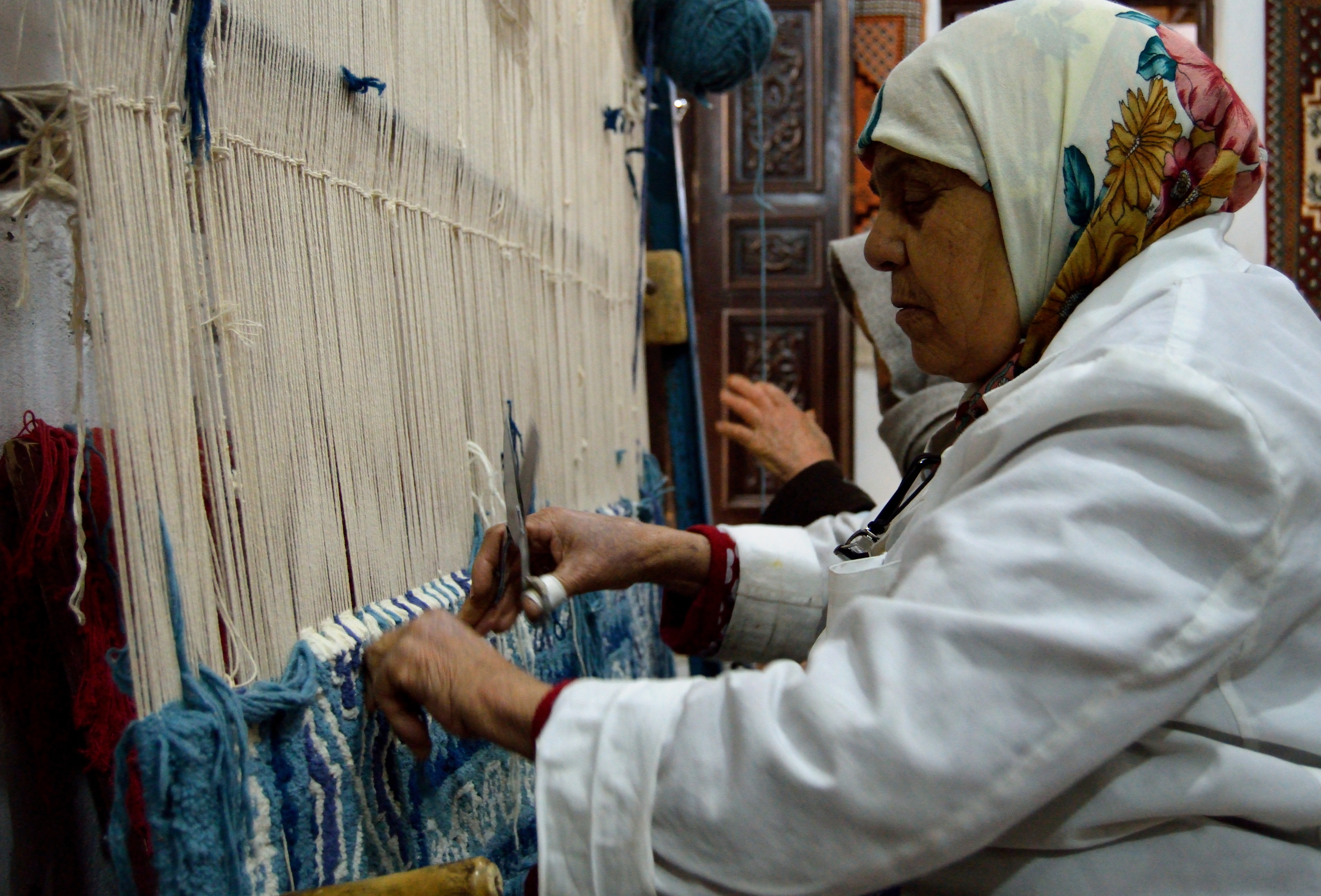 images from wikiloves africa 2017 in tunisia This is an image of "African people at work" from Tunisia